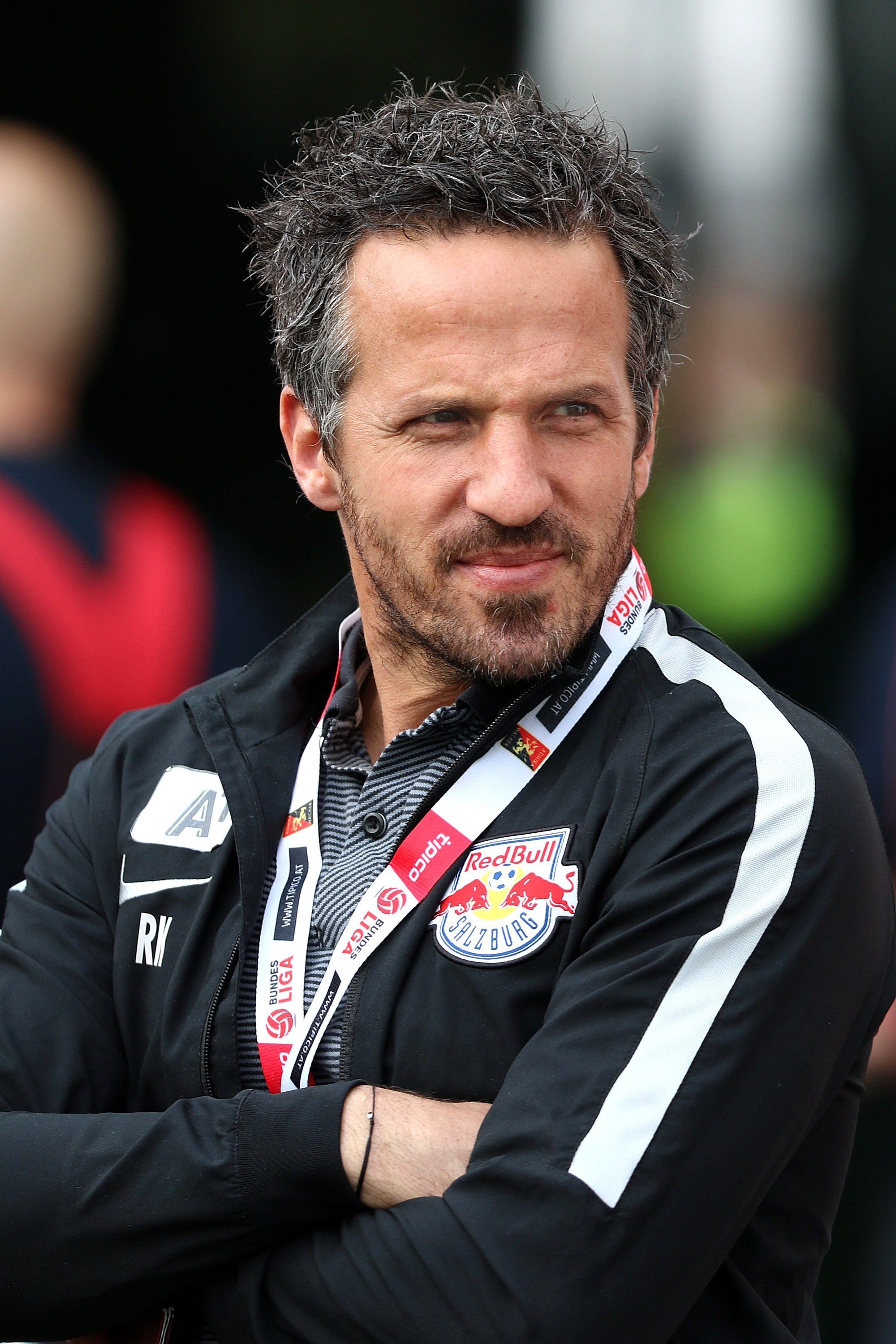 2016–17 Austrian Cup: FC Admira Wacker Mödling (red shirts) vs. FC Red Bull Salzburg (white shirts) at 26. April 2017 in the BSFZ-Arena in Maria Enzersdorf 0:5 (0:2) – The photo shows Richard Kitzbichler (videoanalyst of FC Red Bull Salzburg)